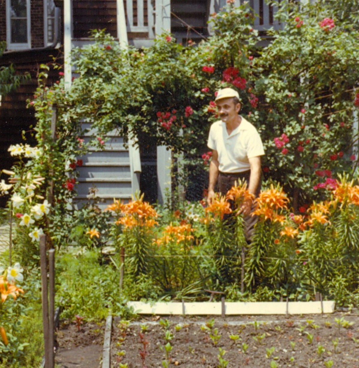 Dušan Trbojević in his yard in Chicago.